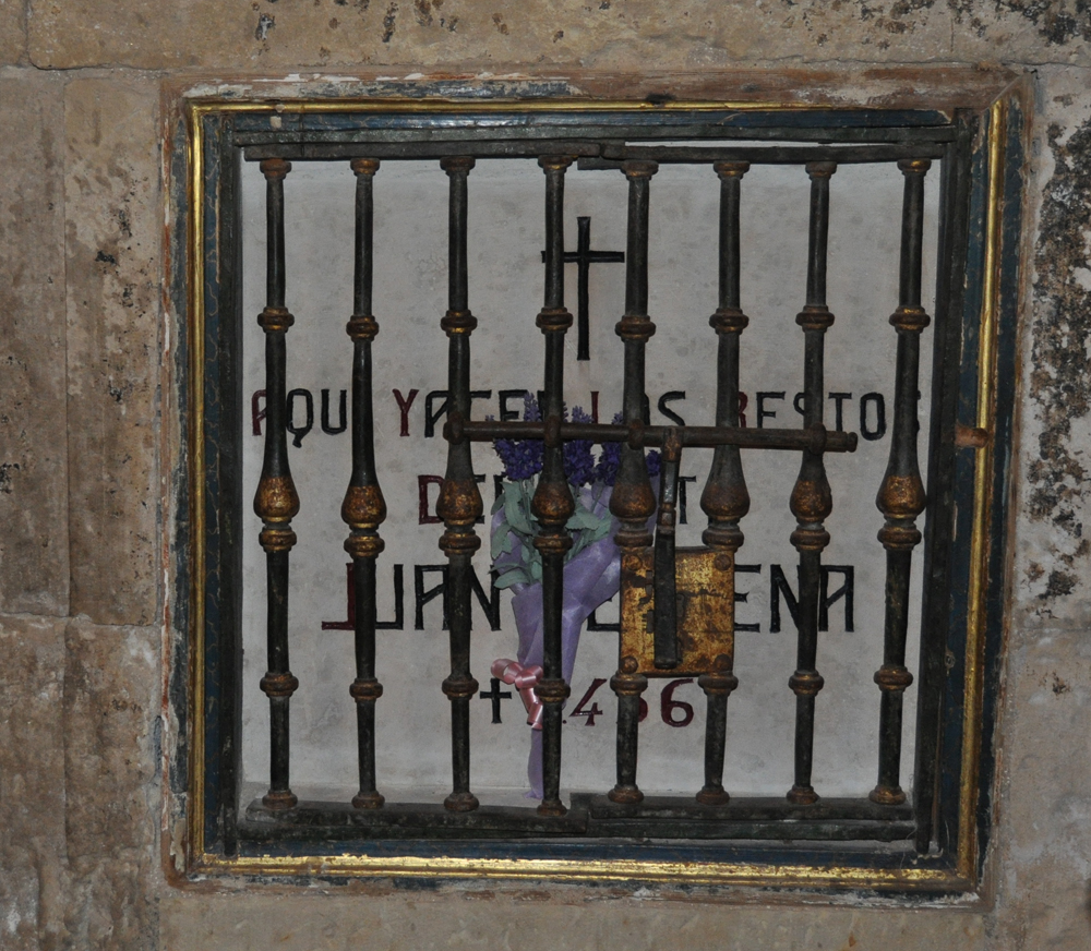 Tumba del poeta Juan de Mena en la Villa de Torrelaguna (Madrid) - Iglesia de Santa María Magdalena